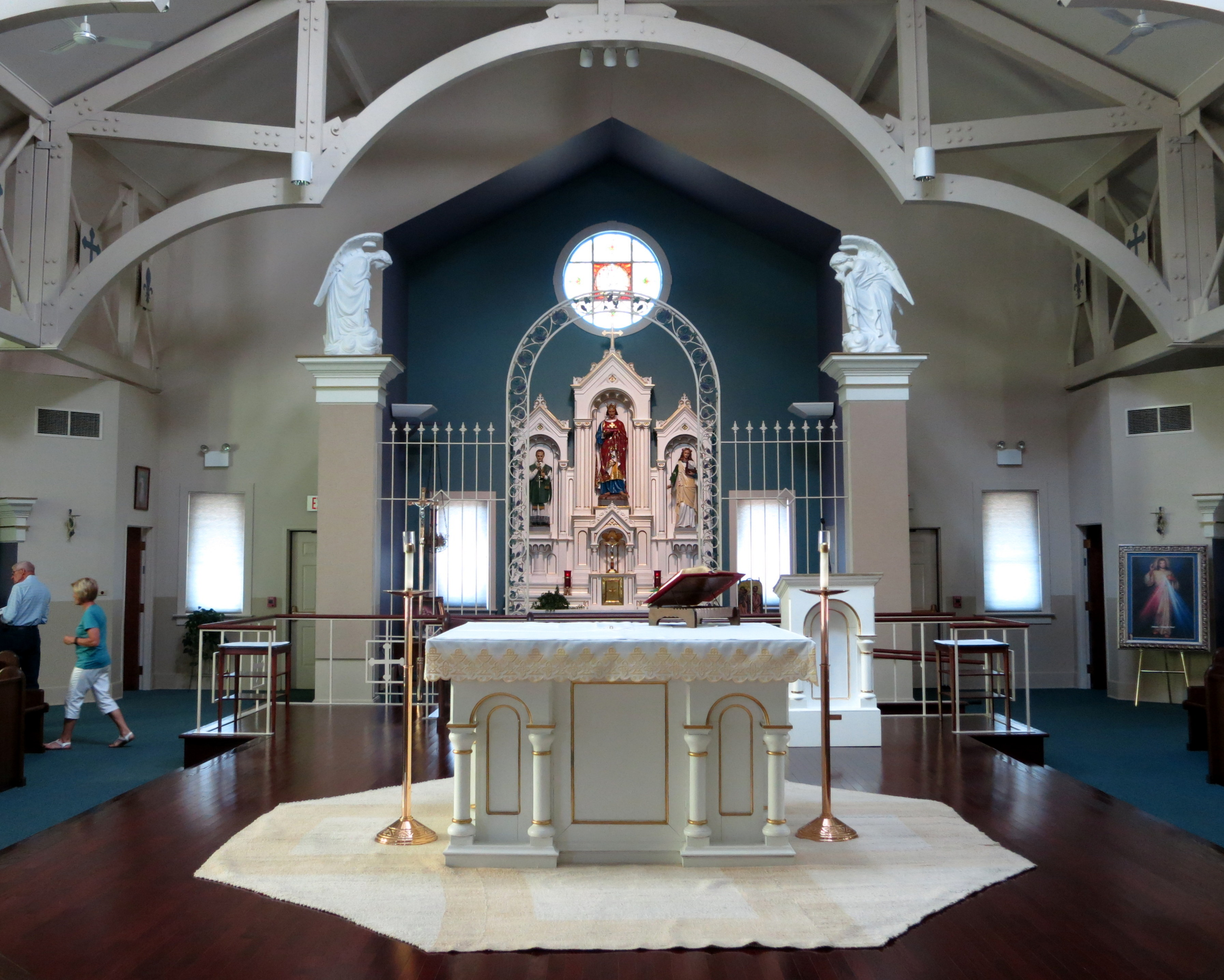 Saint Louis Catholic Church (North Star, Ohio) - chancel